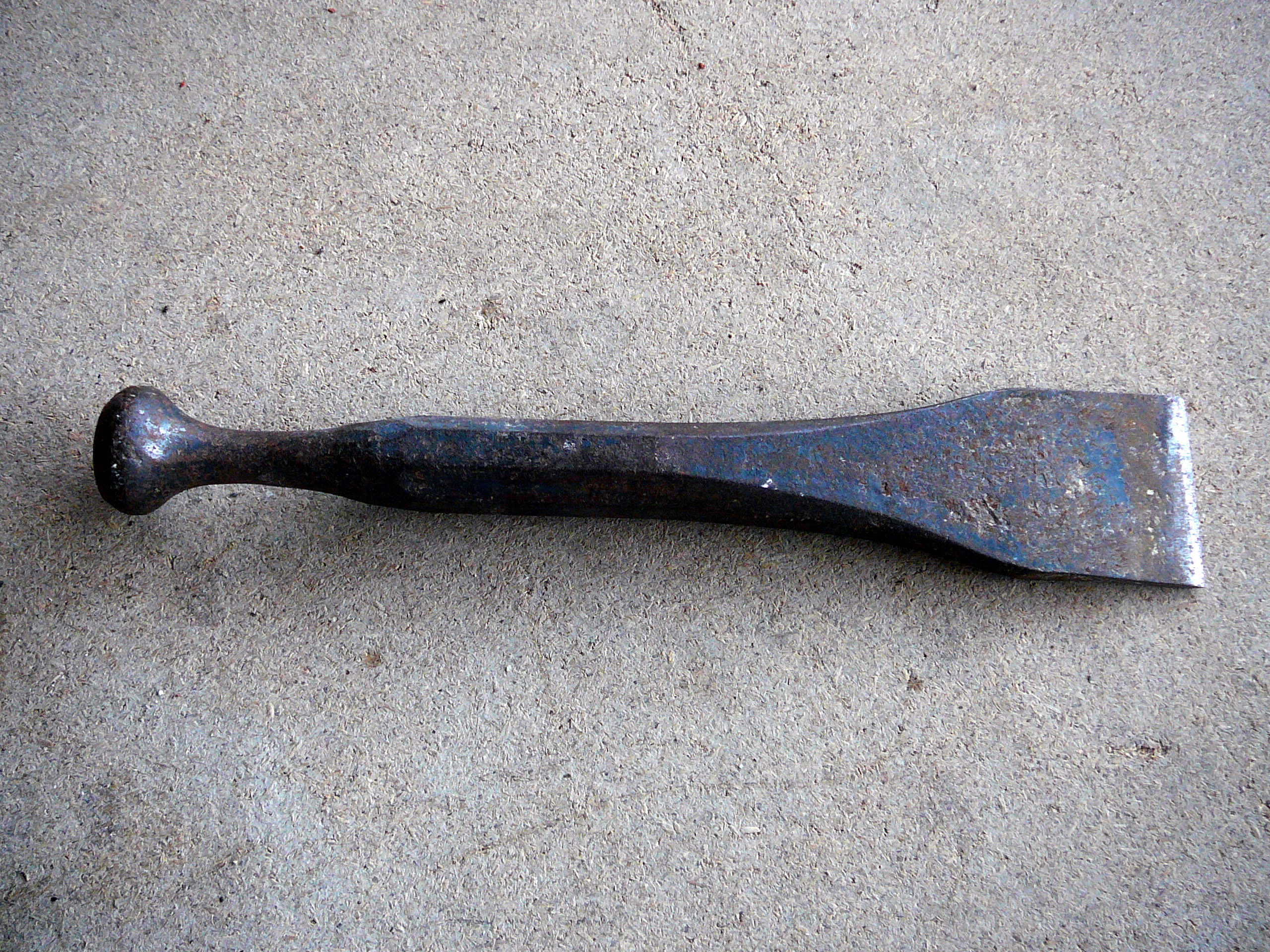 A stone chisel